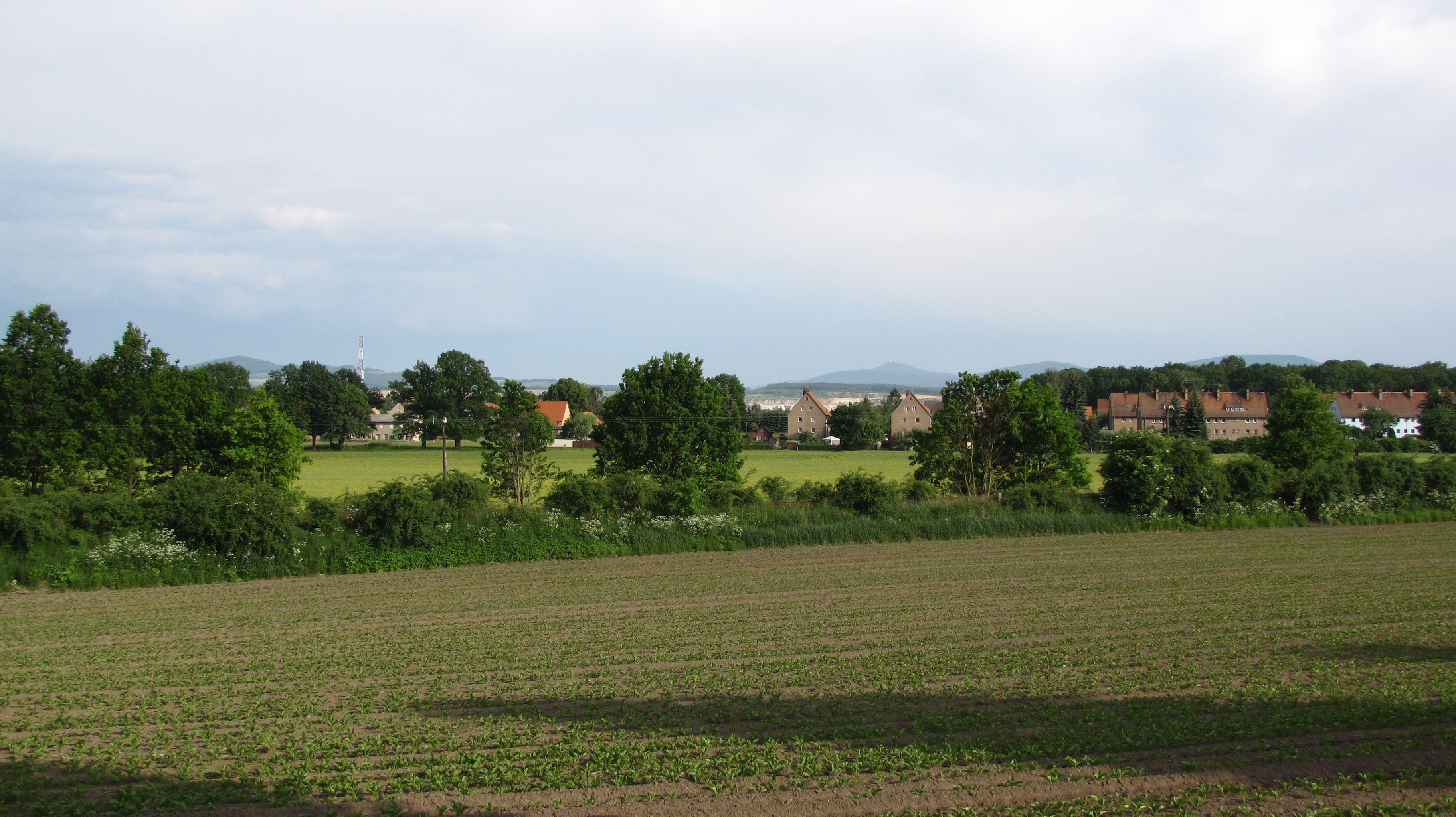 Village of Drausendorf, Part of city of Zittau